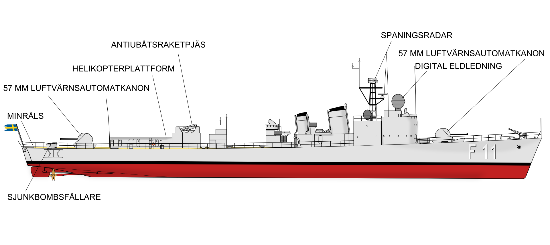 Swedish ship HMS Visby, as her weaponry appeared from 1965 to 1982.